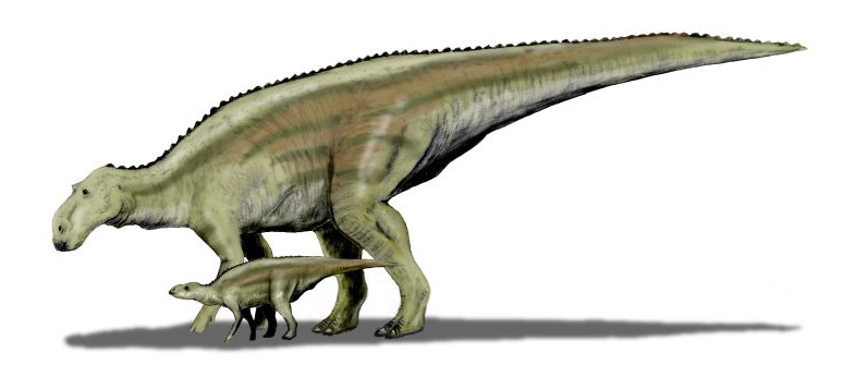 Maiasaura peeblesorum, a hadrosaur from the Late cretaceous of Montana, pencil drawing, digital coloring